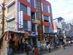 Chinsurah